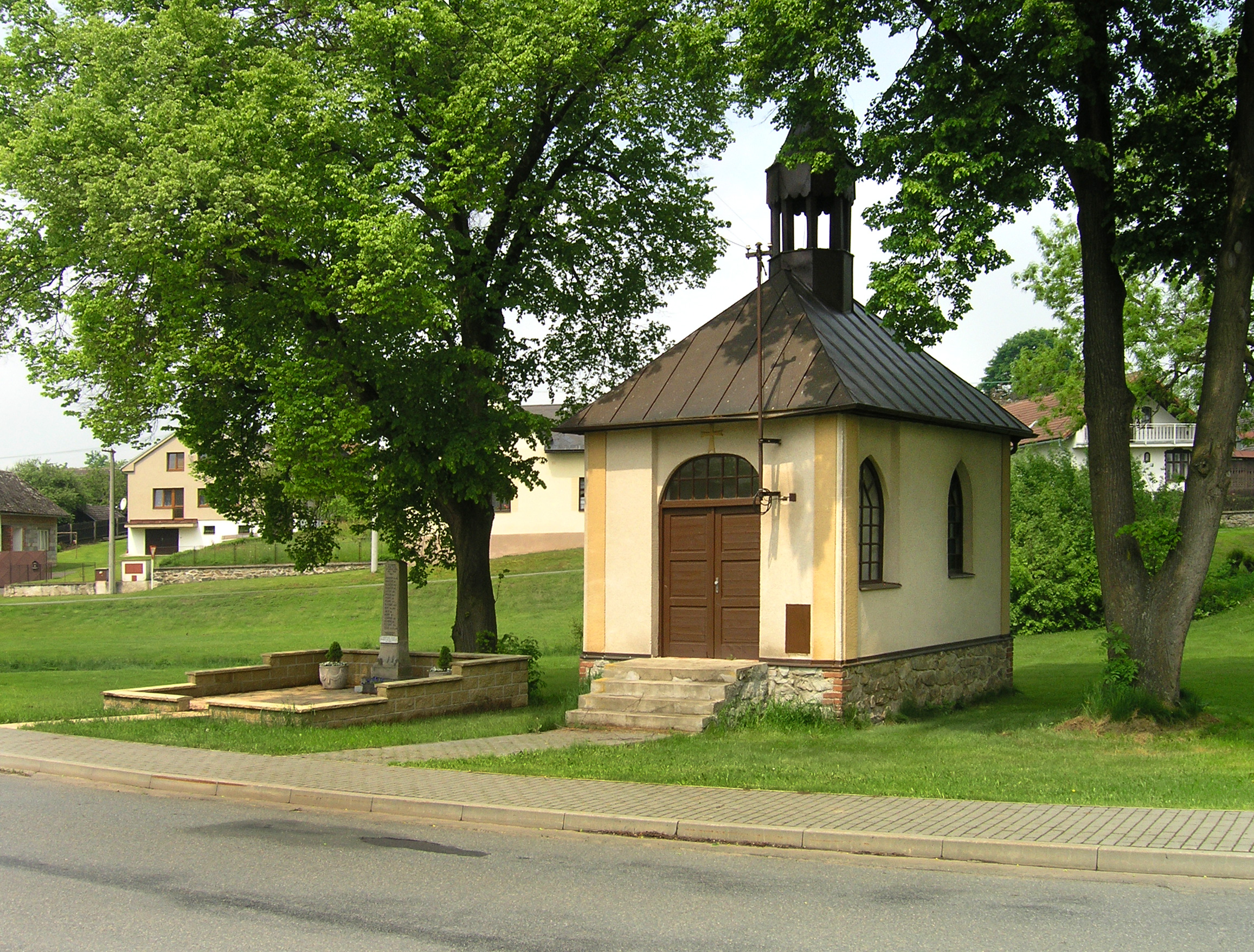 Chapel in Vepříkov village, Czech Republic